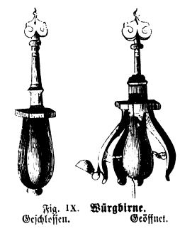 caption: "Fig. IX. WürgbirneGeschlossen. Göffnet."